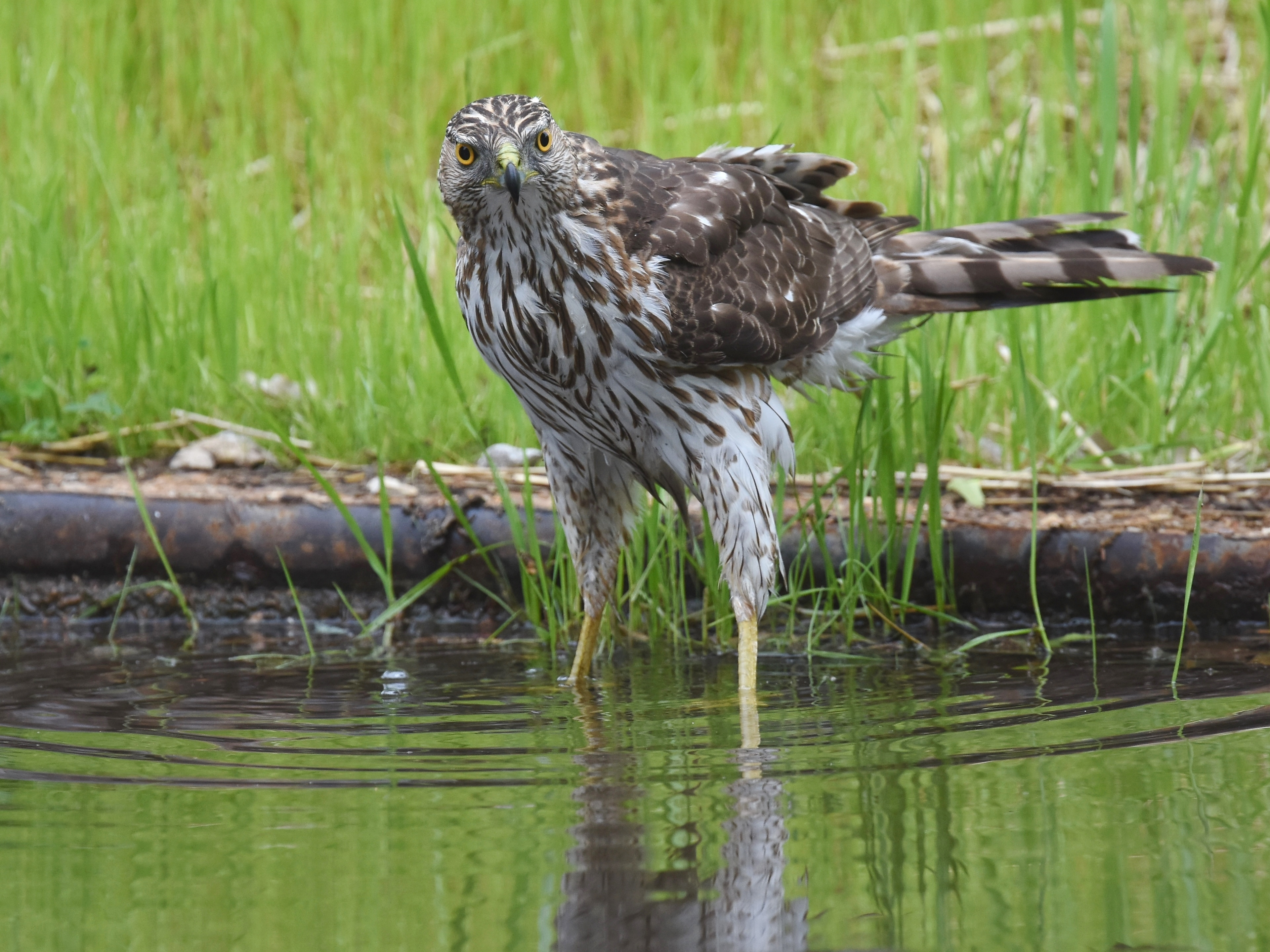 Cooper's Hawk bathing on a city street